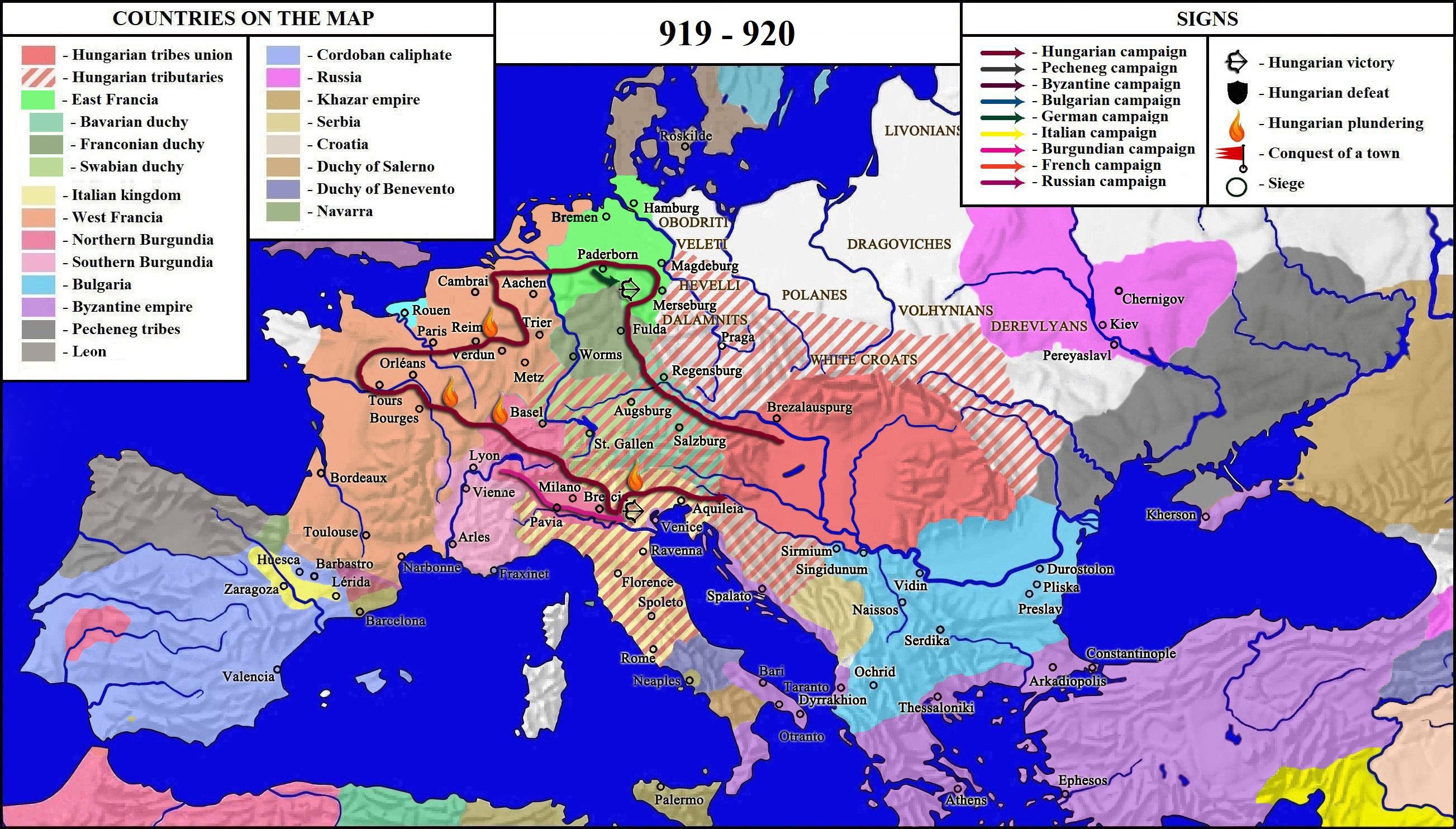 The Hungarian campaign of 919-920, in many of the countries of the Christian Europe (East Francia, West Francia, Burgundy, the kingdom of Italy), which resulted the Hungarian victories of Püchen against the king of East Francia and of 920 against the Burgundian king from 920 in Italy.